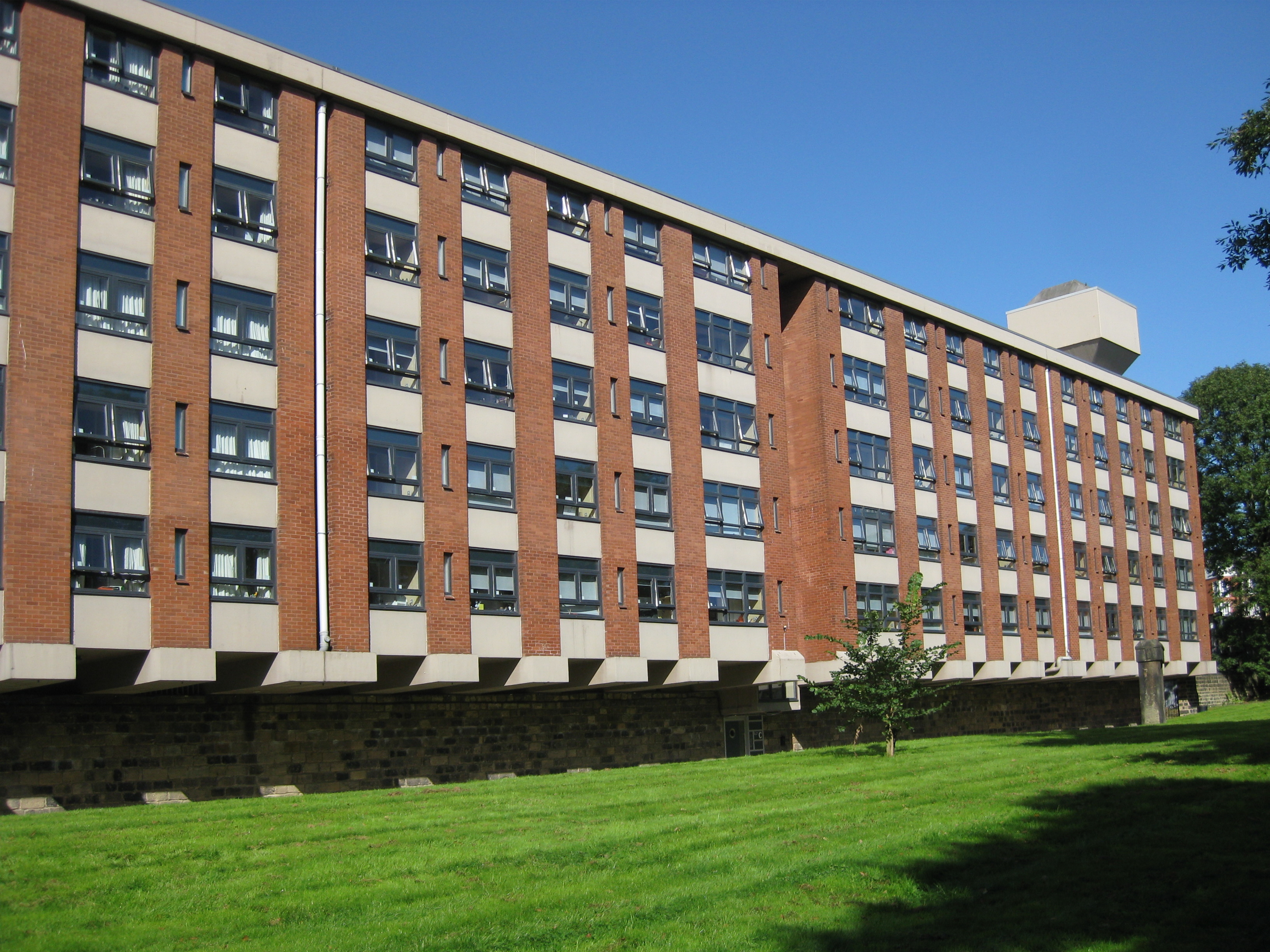 Henry Price student residences, University of Leeds. Viewed from St George's Fields, the former Woodhouse Cemetery.